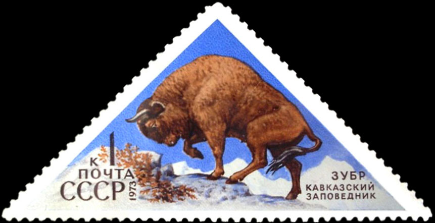 1973 Post of the Soviet Union; 1 k; multicolored; Caucasian Nature Reserve, Wisent (Bison bonasus); Series - Nature Reserves; Design - V. Kolganov